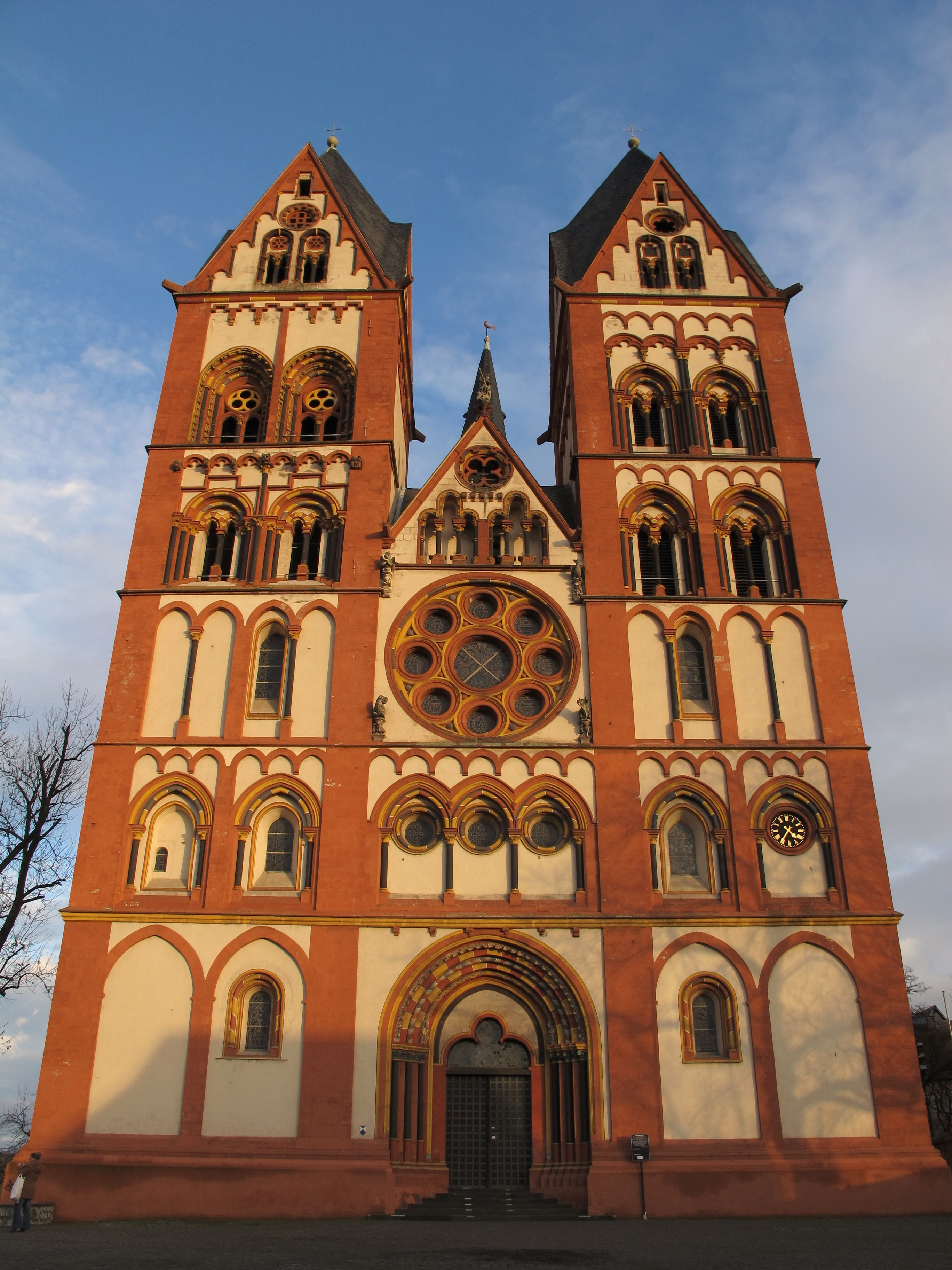 Western facade Limburger Dom